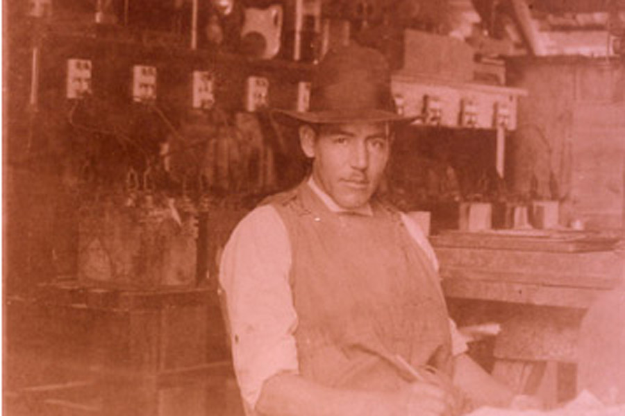 LTH founder at the LTH Battery factory.